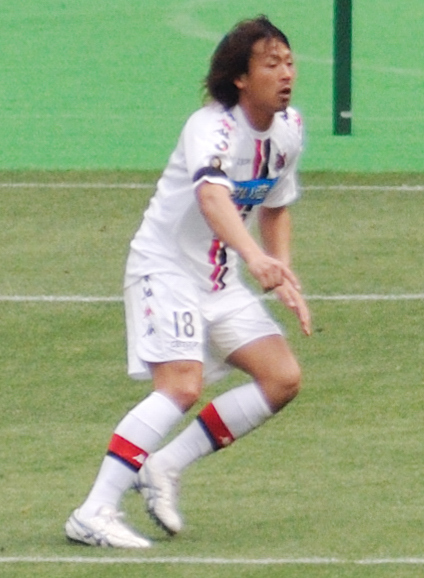 FC Tokyo vs Consadole Sapporo 30 March 2011